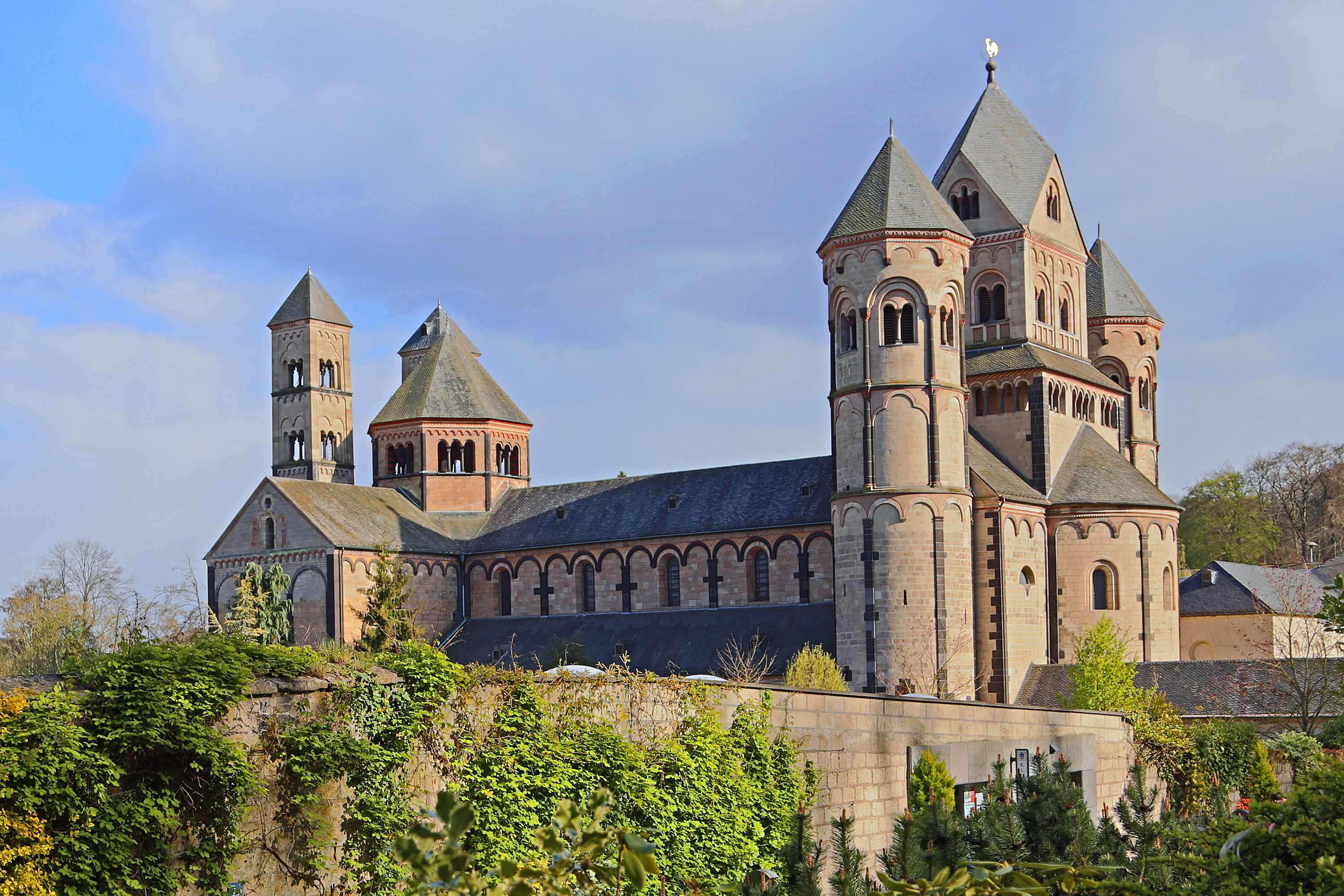 Abbey of Maria Laach is a medieval monastery complex. It is located at Menden in the Eifel, Germany.